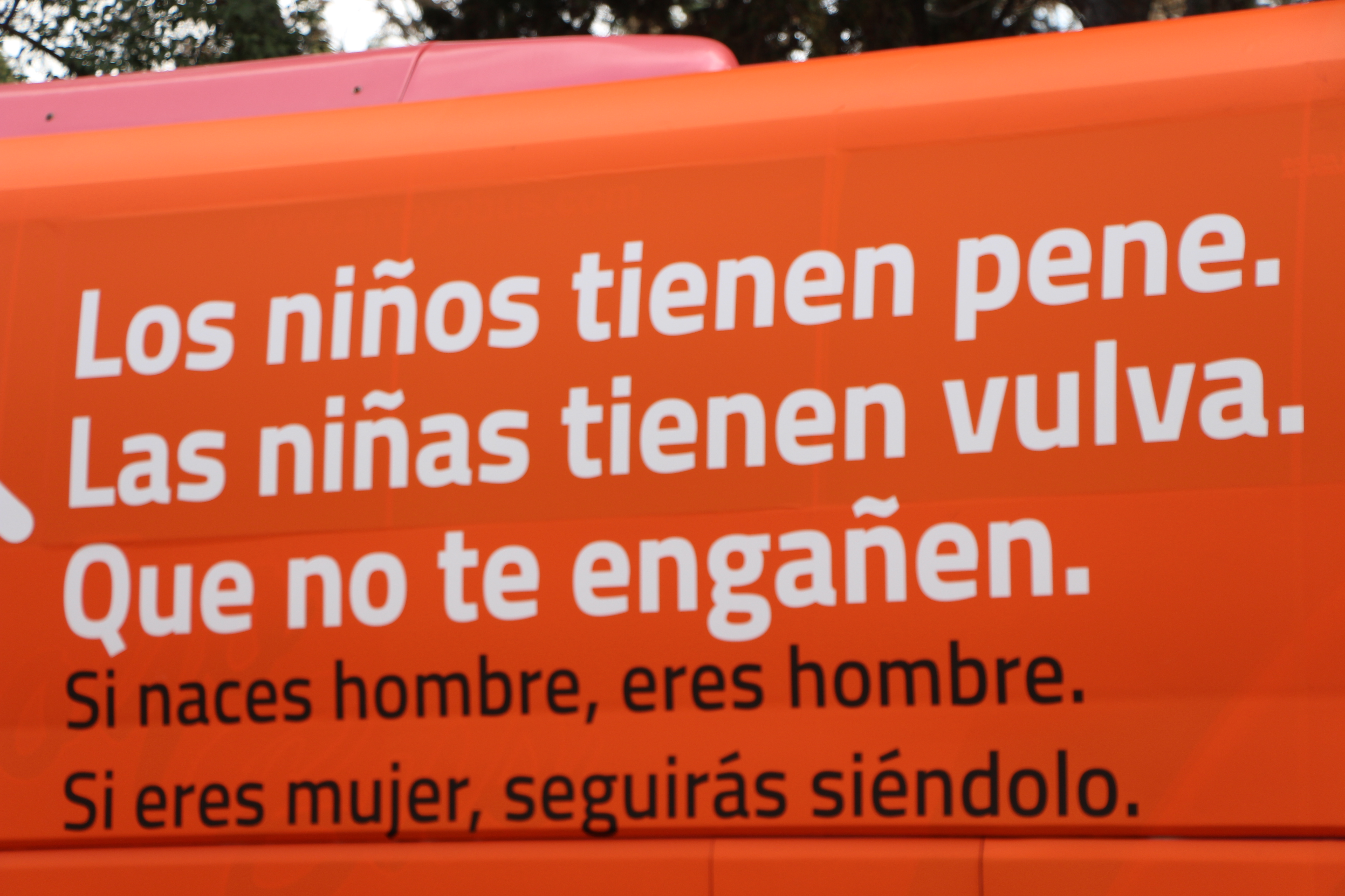 Transphobic bus chartered by HazteOír (Make Yourself Heard) on February 27. The bus reads "Boys have penises. Girls have vulvas. Don't be fooled. If you were born a man, you're a man. If you're a woman, you'll keep being one. Don't let them manipulate your kids at school. Inform yourself with the book they don't want you to read. Order it for free at "